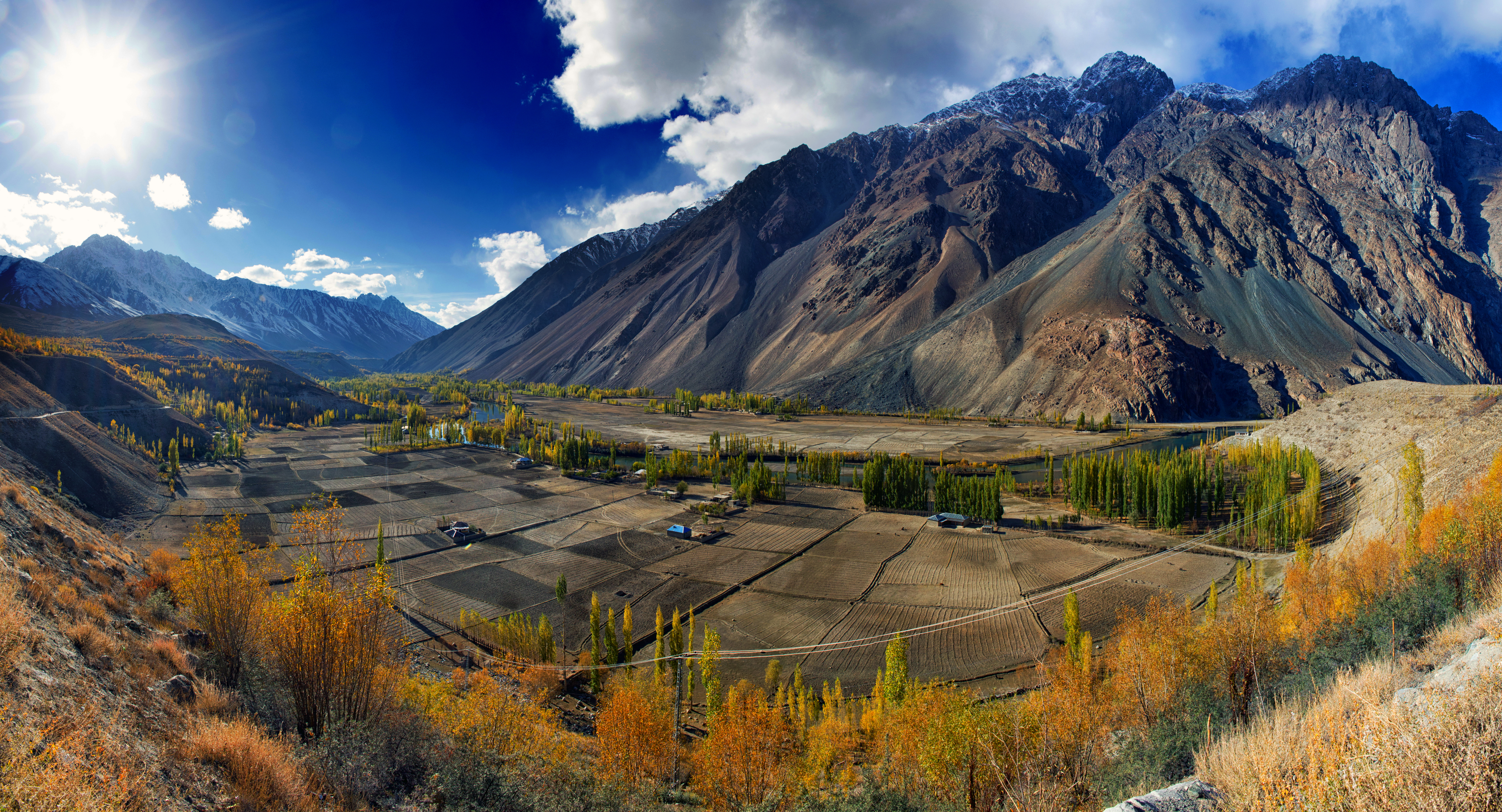 Panoramic view of Phandar Valley located in Giligit Balistan.